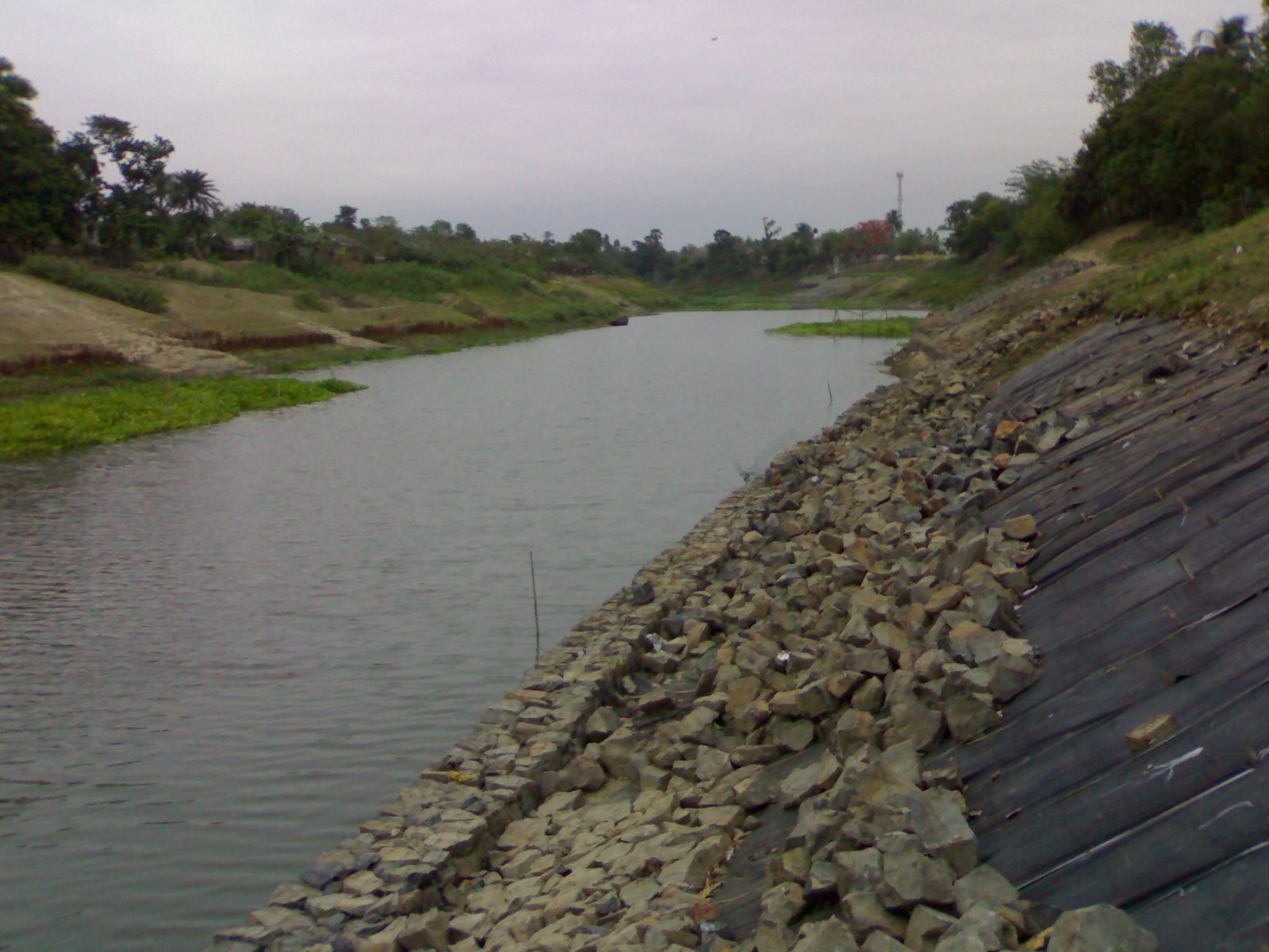 River Tangan at AIHO